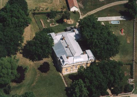 Levelek, Hungary, aerialphotography